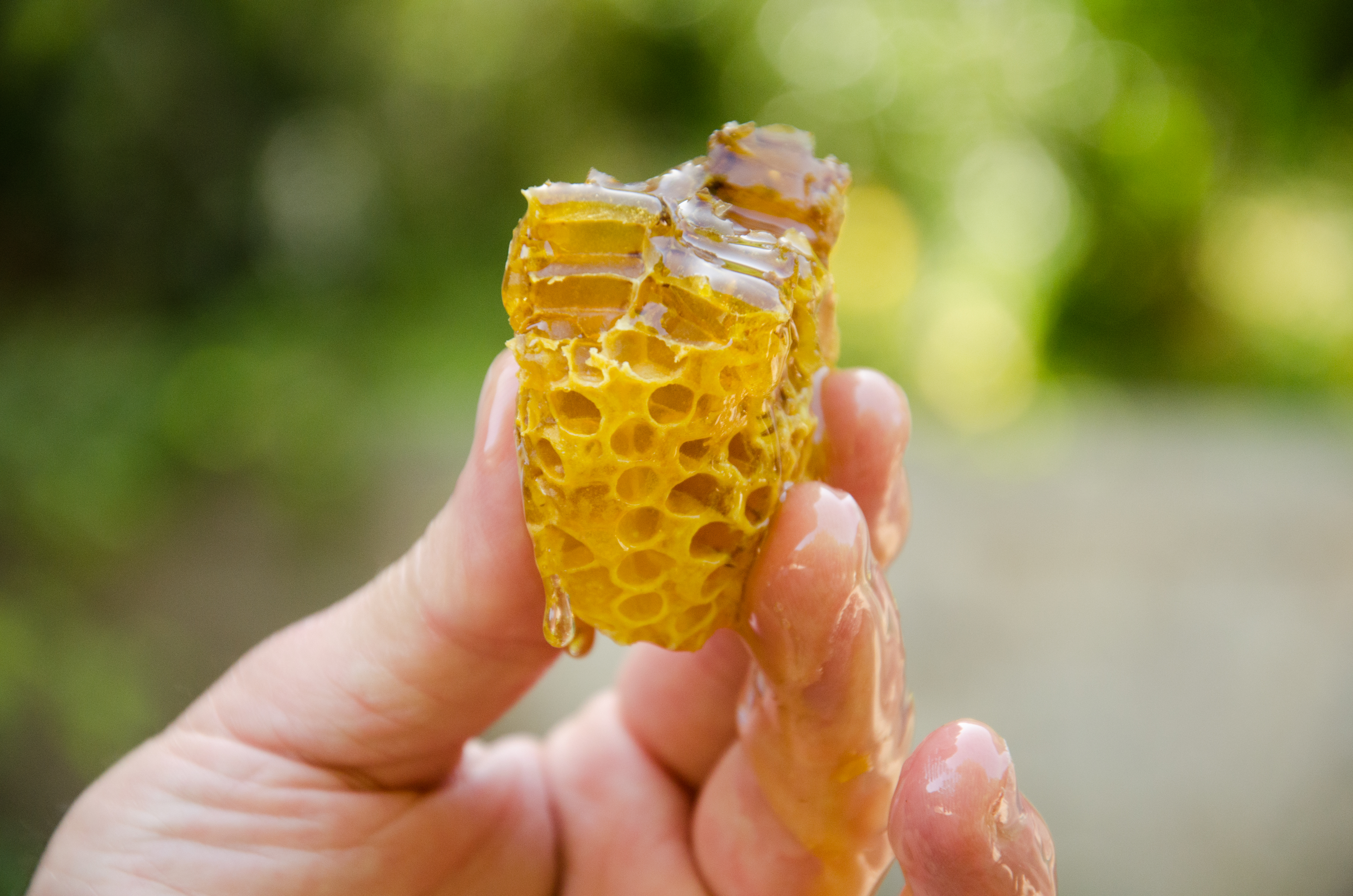 Honey of the Valley of Anapo (Hyblaean Mountains) . Valle dell'Anapo, workshop 25-05-14